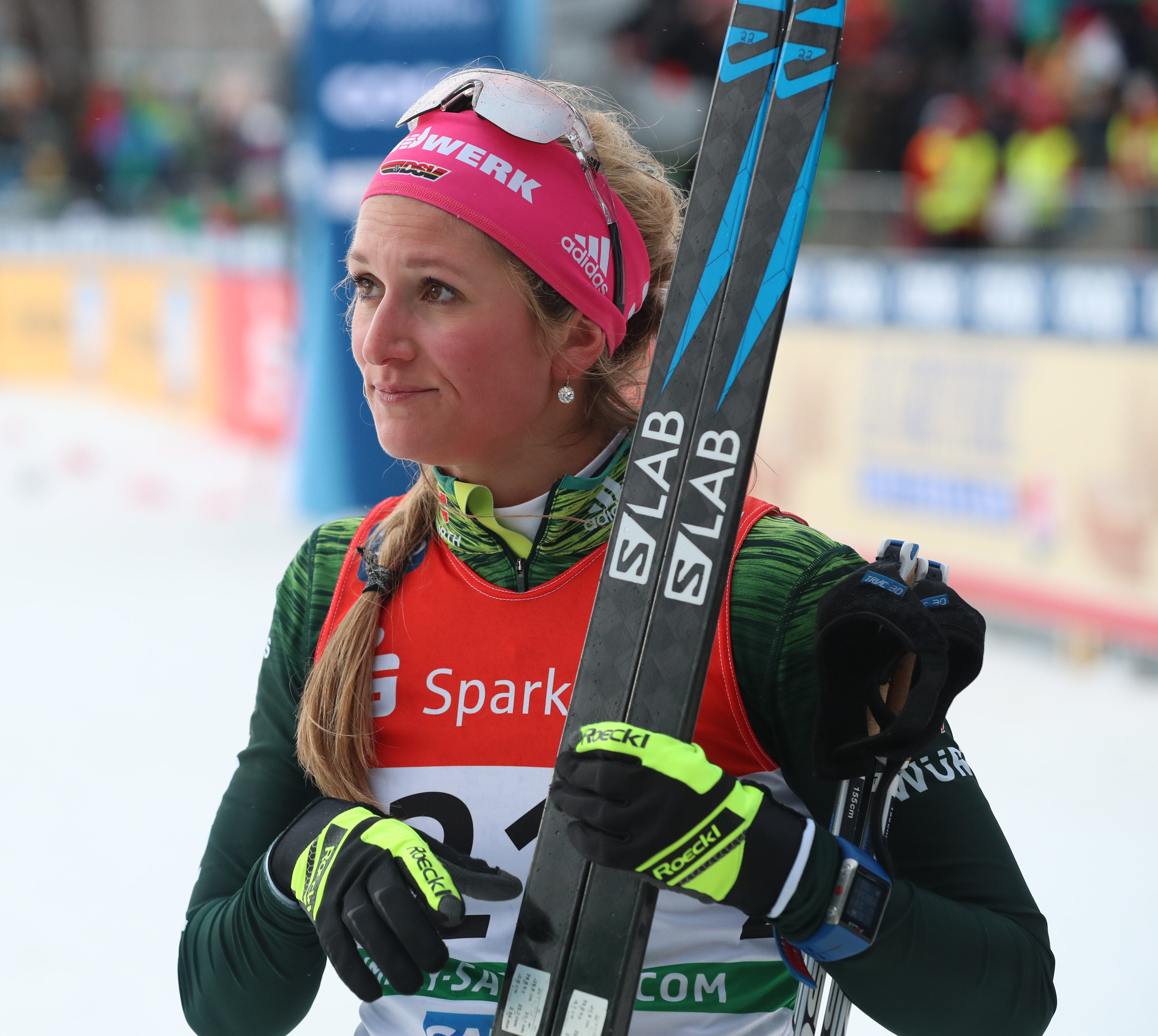 Women's Quarterfinal, Heat 5, at the FIS Cross-Country World Cup Dresden 2019 (1.6 km Free Sprint)